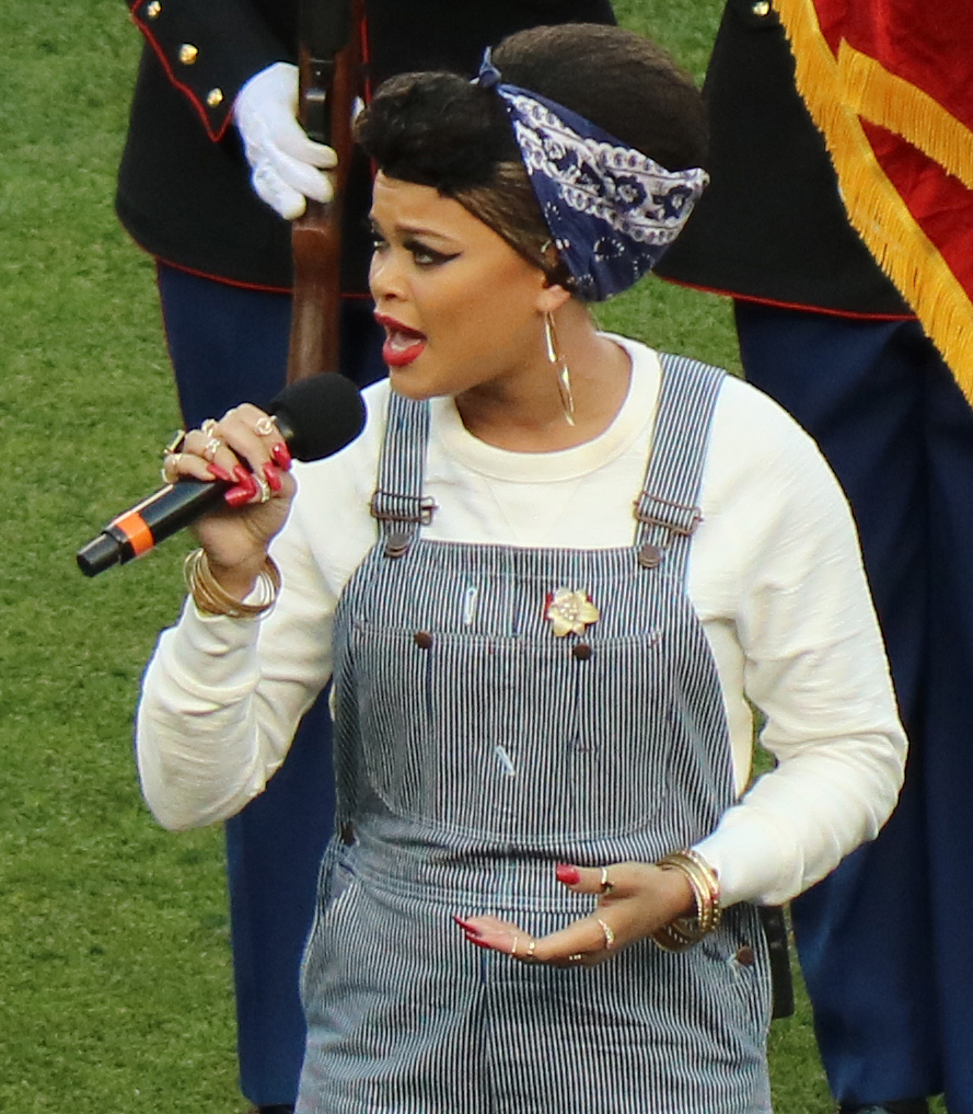 Andra Day singing The Star Spangled Banner in Denver, Colorado on September 8, 2016, at a game between the Denver Broncos and the Carolina Panthers.